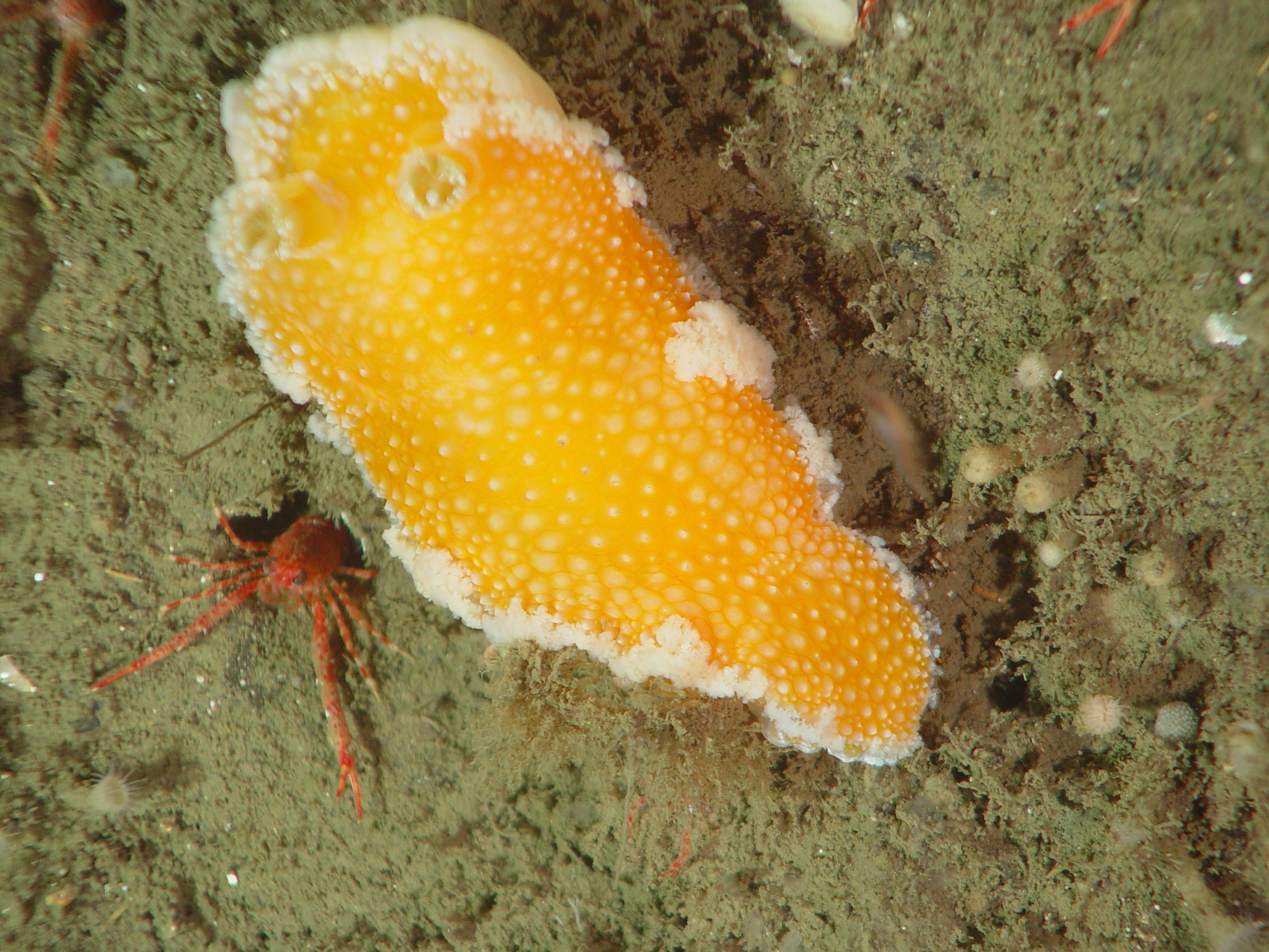 Orange peel nudibranch (Tochuina tetraquetra) . Fairly large creature as can be seen by comparison with squat lobster. Washington, Olympic Coast NMS.